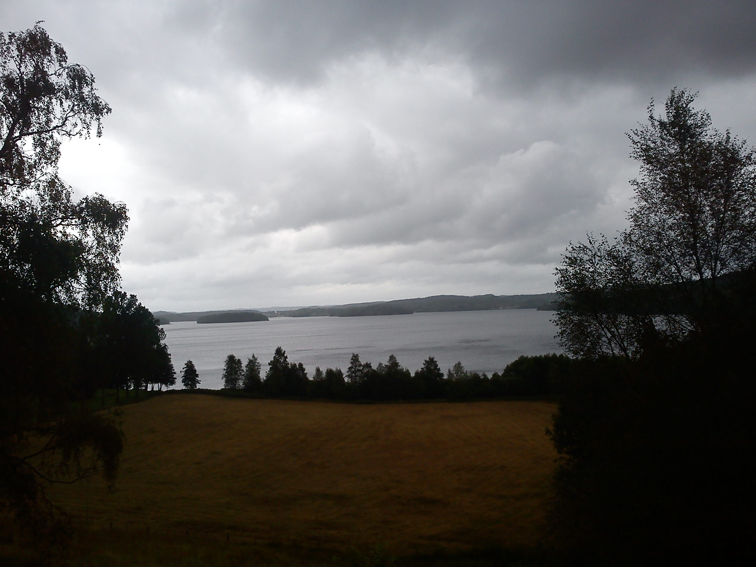 Mäsen in Halland, Sweden